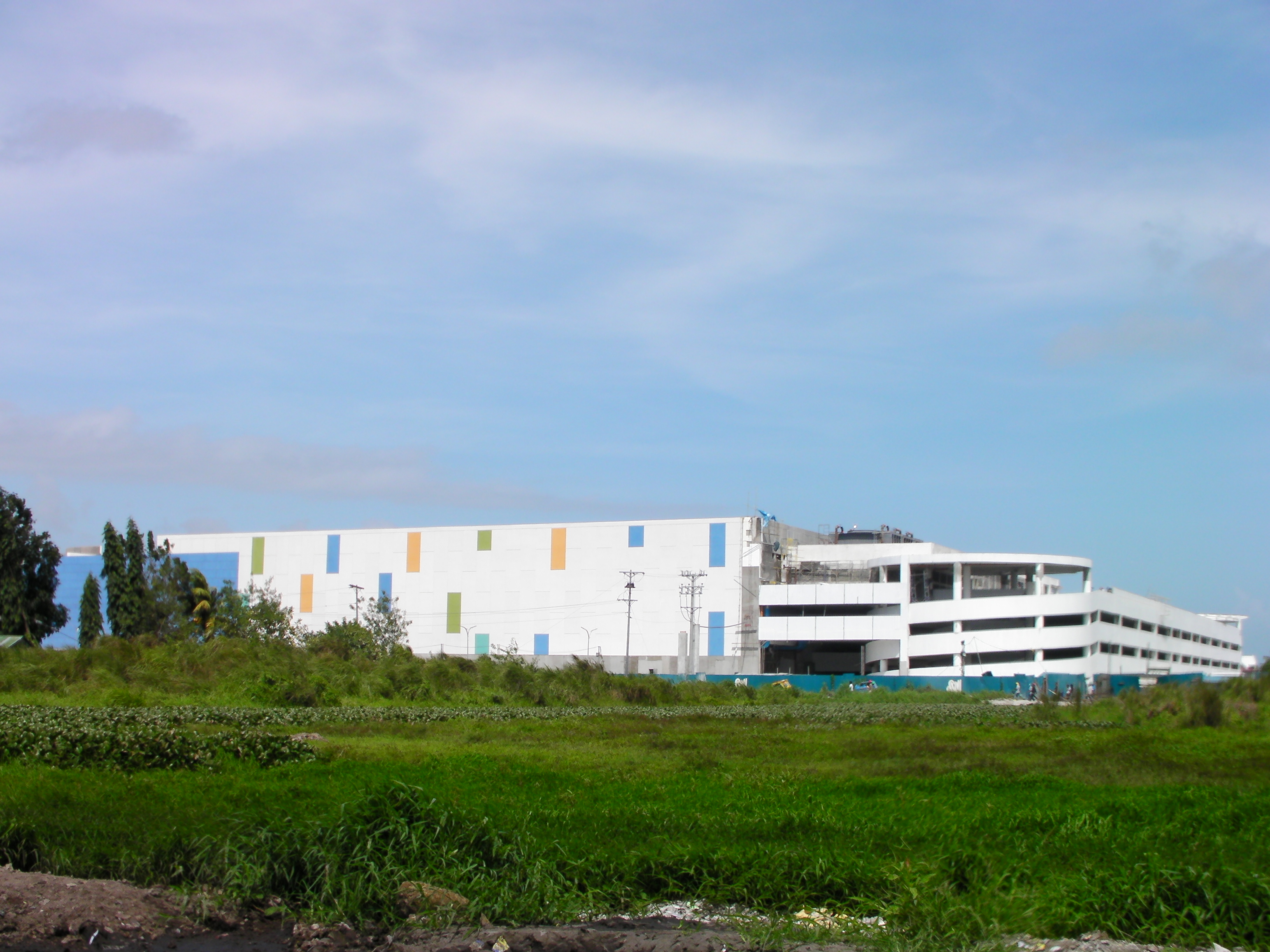 SM City Naga nears completion. Opening May 2009.